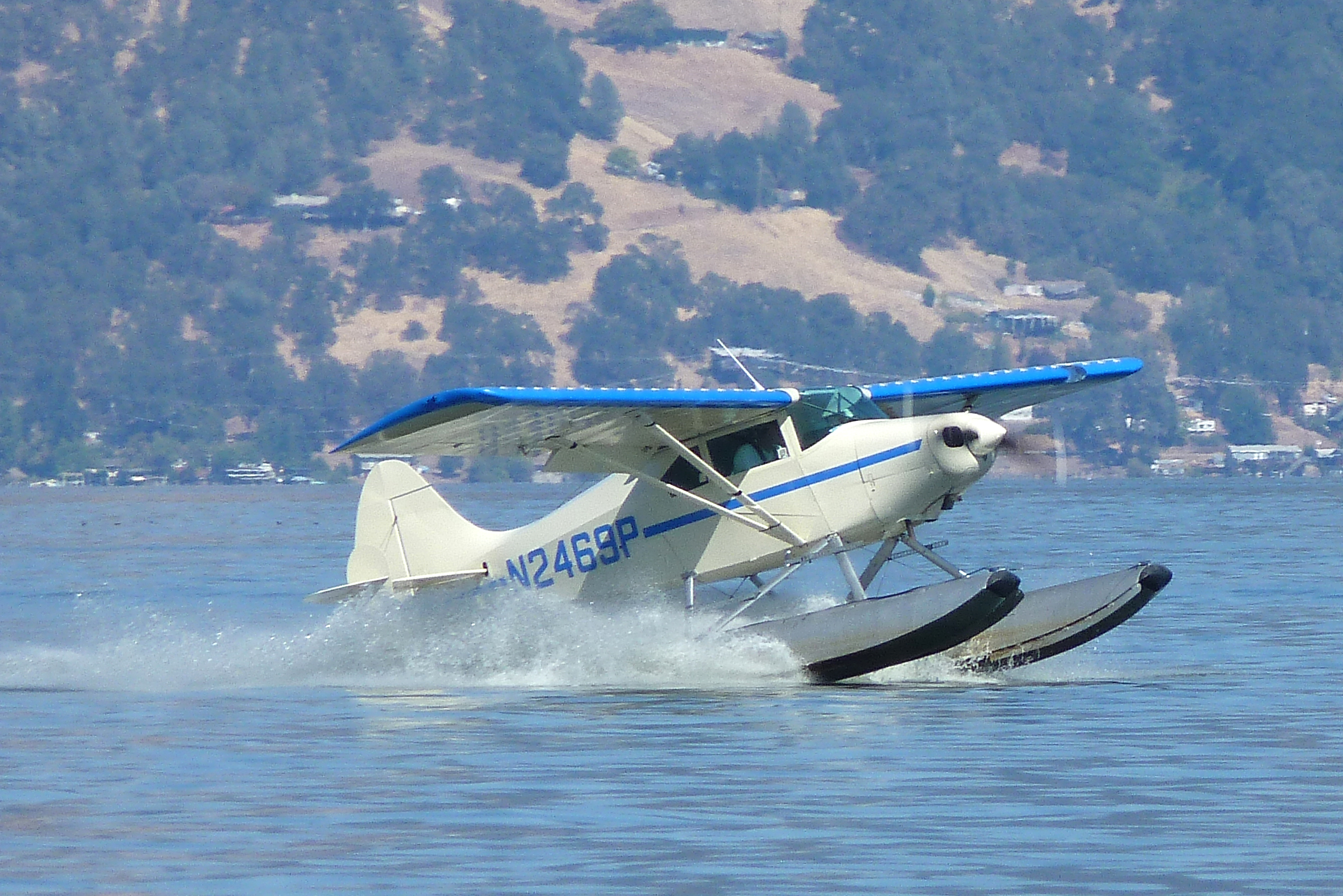 At Lakeport, Clear Lake, CA 9-29-12.